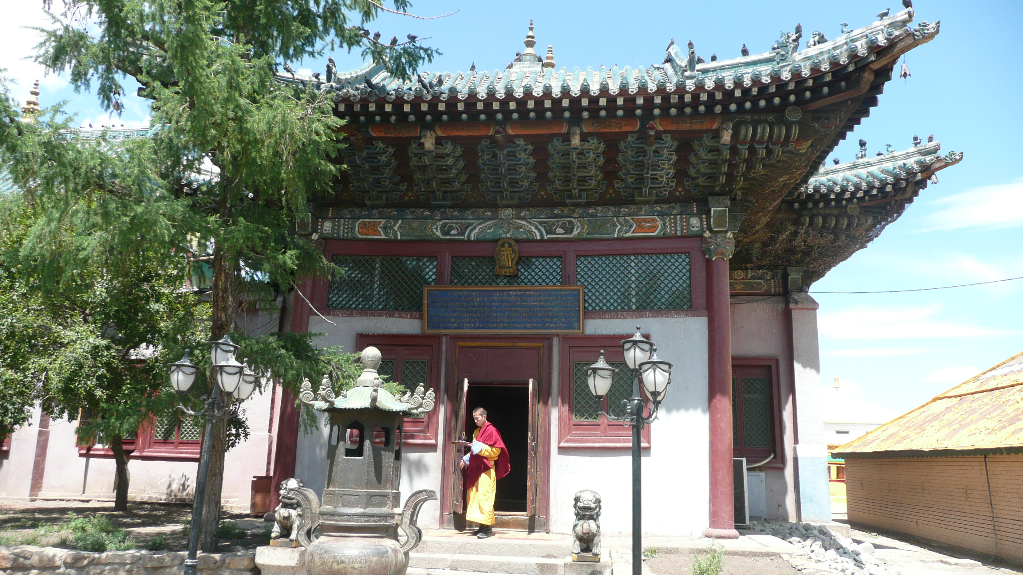 Gandan Monastery in Ulan Bator